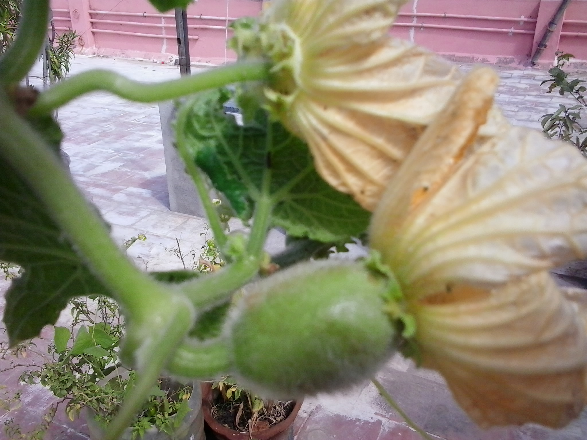 Male flower (top) and female flower (bottom) of a pumpkin plant